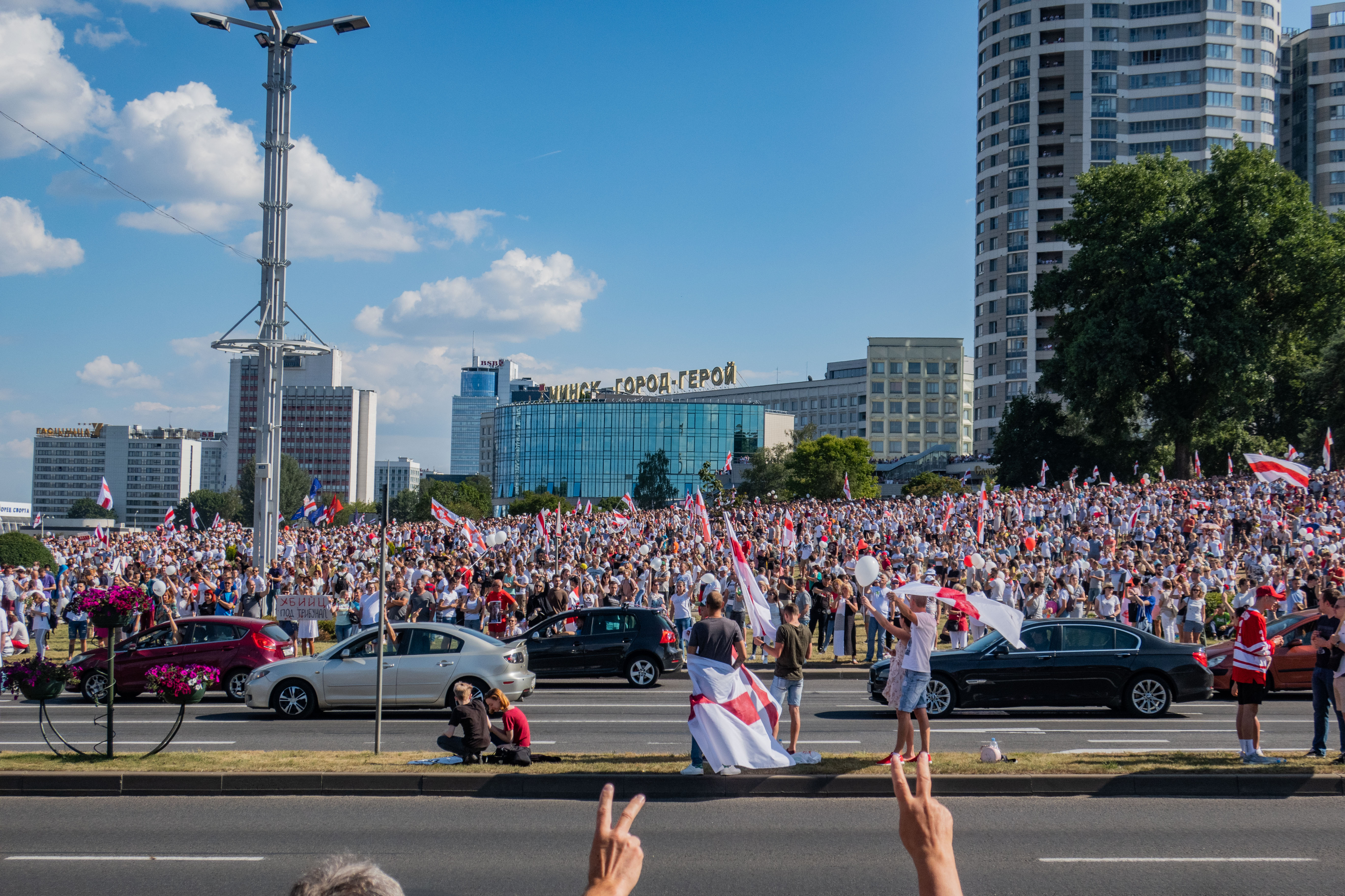 Protest rally against Lukashenko, 16 August. Minsk, Belarus